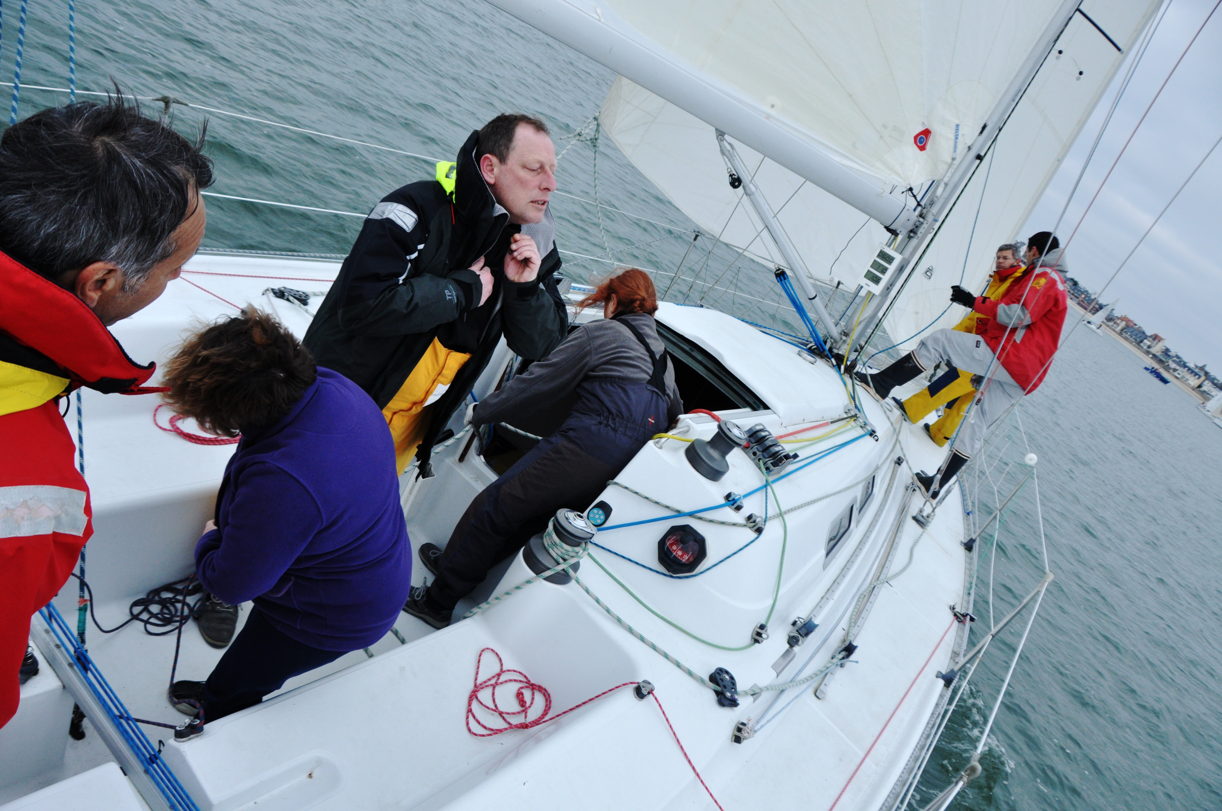 A team during a regatta (Lorient, France).